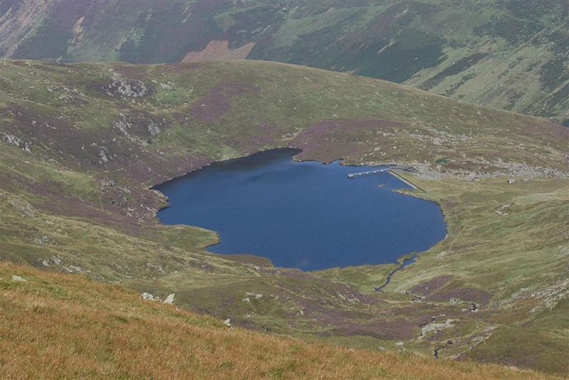 Llyn Anafon, Gwynedd